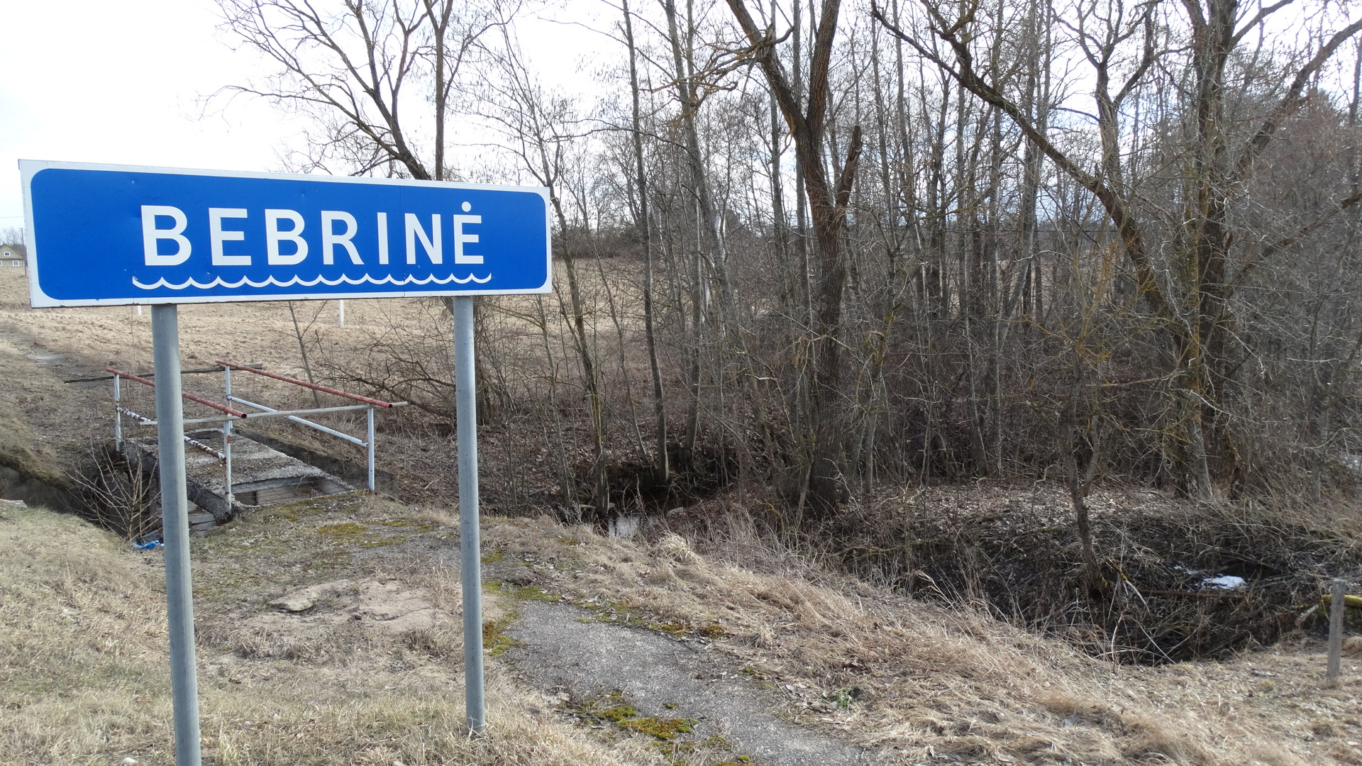 Bebrinė stream, Salakas, Zarasai District, Lithuania